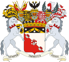 Coat of arms of the Counts of Vorontsov family.